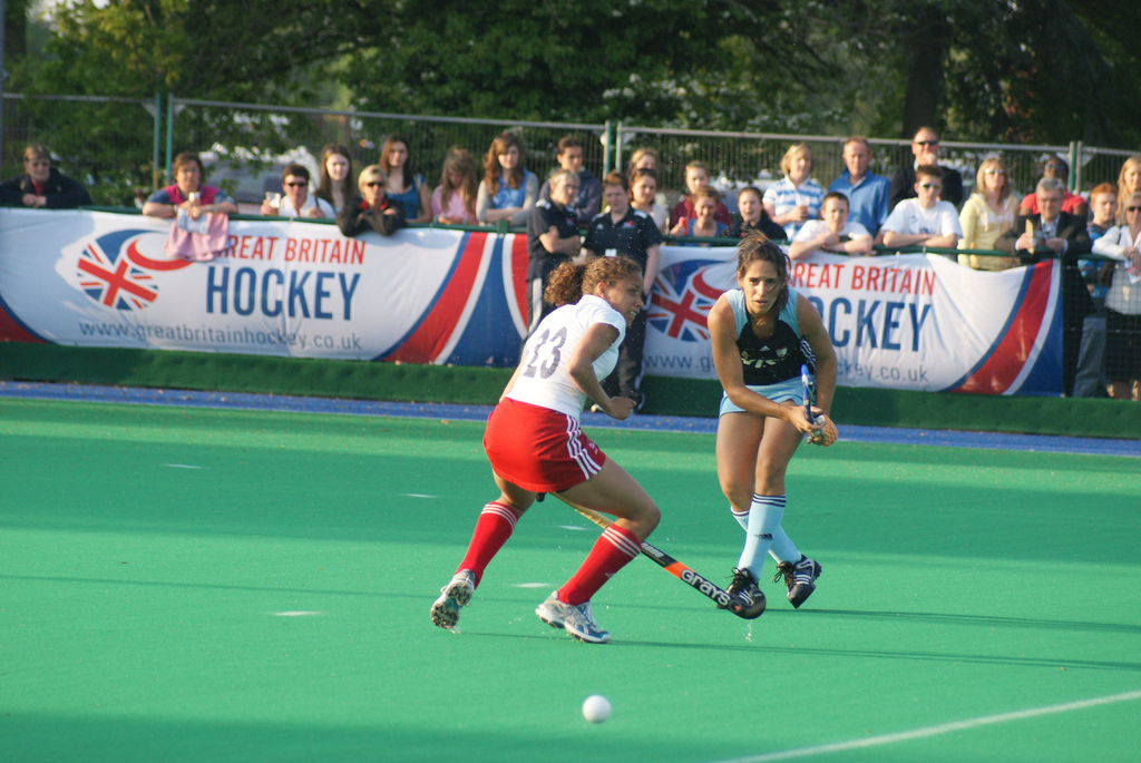 Kerry Williams (England) & Inés Arrondo (Argentina, Las Leonas). Field hockey.